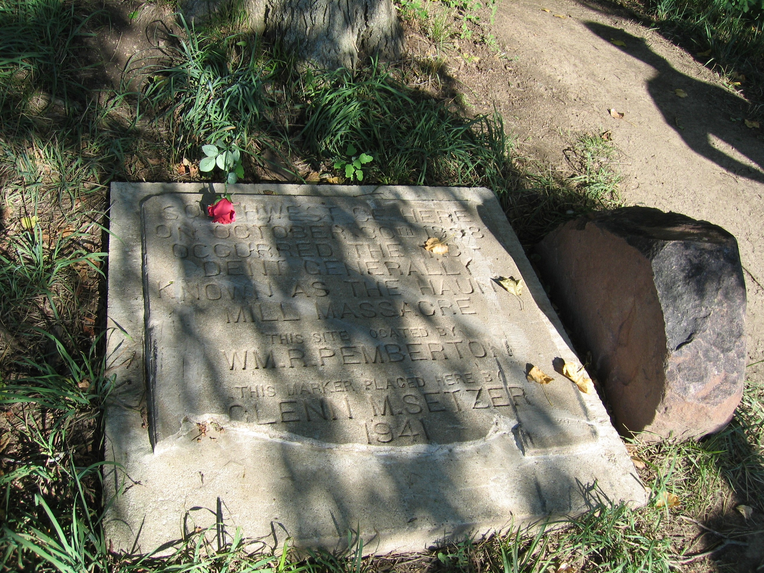 04 Aug 2006 photo of marker at Haun's Mill, Caldwell County, Missouri 22 April 2008 The site of the Haun's Mill well is unknown. This marker designates the approximately 32 acres owned by Jacob Haun in the settlement. In 1887, Josiah Fuller's son visited the site of Haun’s Mill to locate his father's resting-place. With Charles Ross' assistance, Fuller moved a red millstone fragment from the old mill onto the well to commemorate those who died. The stone was partially buried edgeways. In 1888, LDS members Andrew Jenson, Edward Stevenson and Joseph Smith Black visited the site from Utah. They readily located the well by means of the red stone. The red stone apparently remained in place at the well site until 1941 when area resident Glen E. Setzer cast a concrete marker near the entry road. Perhaps unaware of the meaning of the red sandstone standing over the well site, Setzer moved it to the new marker site. The location of the well has been uncertain ever since. The RLDS Church [now Community of Christ] purchased the Haun's Mill property around 1970. In May 2012 it was announced that the The Church of Jesus Christ of Latter-day Saints had acquired the property from the Community of Christ.